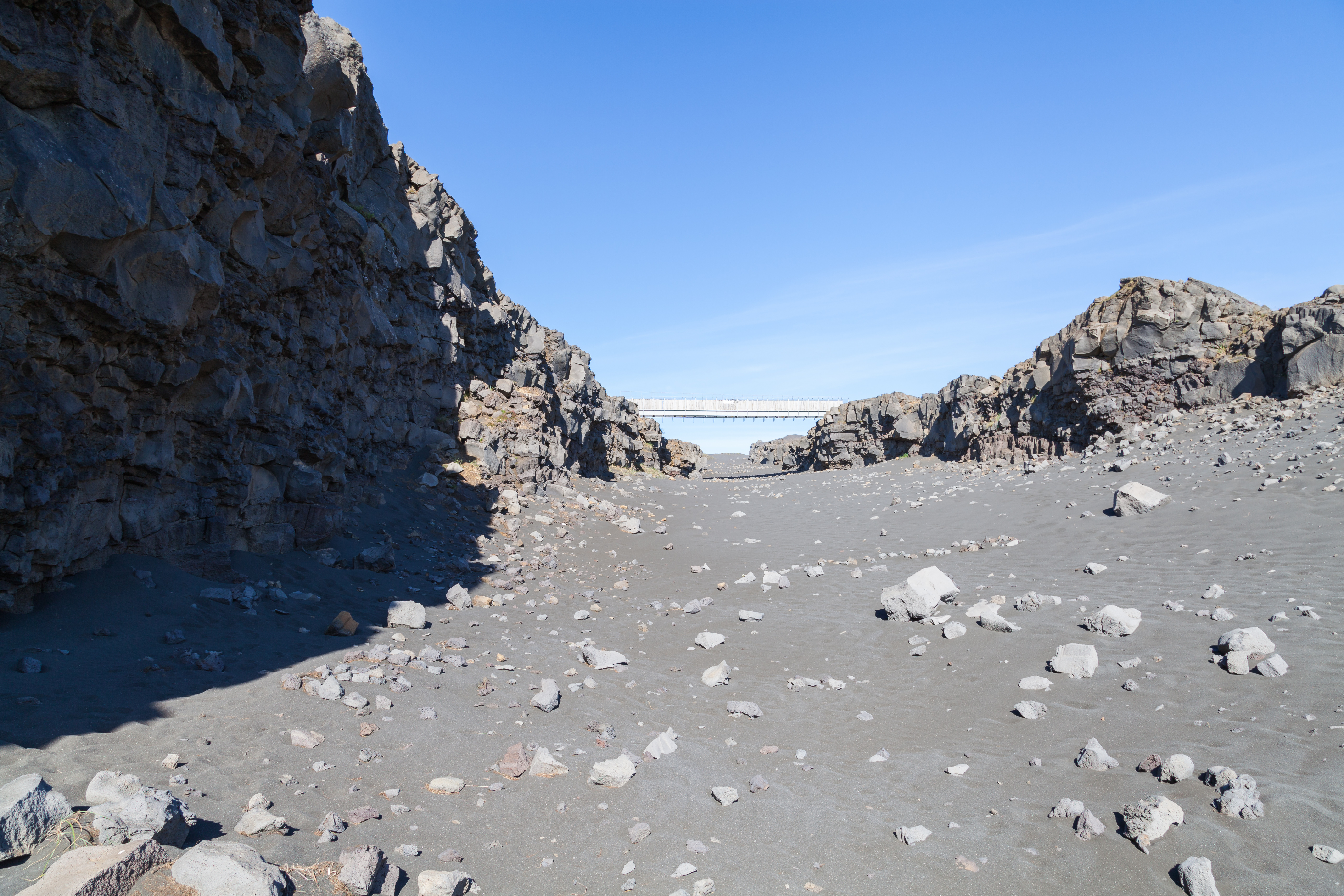 Tectonic plates of Eurasia and North America, Suðurnes, Iceland